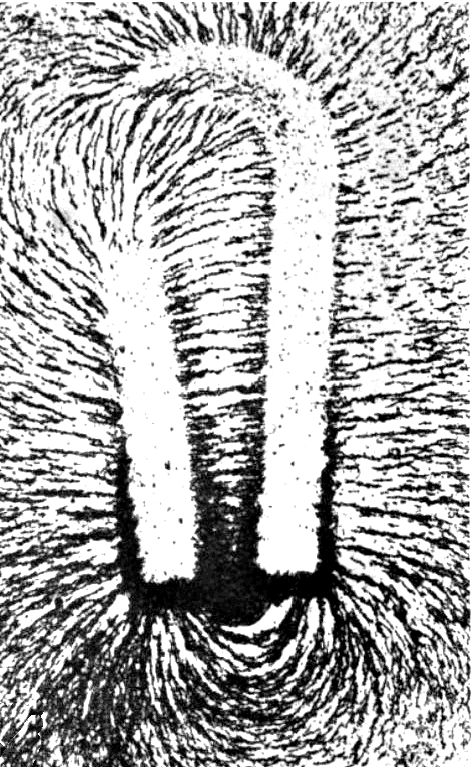 Photo of magnetic field of a horseshoe magnet. The magnetic field was made visible by sprinkling a layer of iron filings on a sheet of paper laid on top of the magnet. The filings are shaped like tiny needles, and orient themselves with their long axis parallel to the magnetic field at each point. The field pattern is slightly unsymmetrical, showing the magnet's righthand pole is slightly stronger than its left. Alterations to image: Converted to greyscale, increased brightness of high value pixels to eliminate background tint, cropped image rectangular, rotated image 90° CW, used clone tool to replace box with initials 'F. E. A.' in lower left corner.